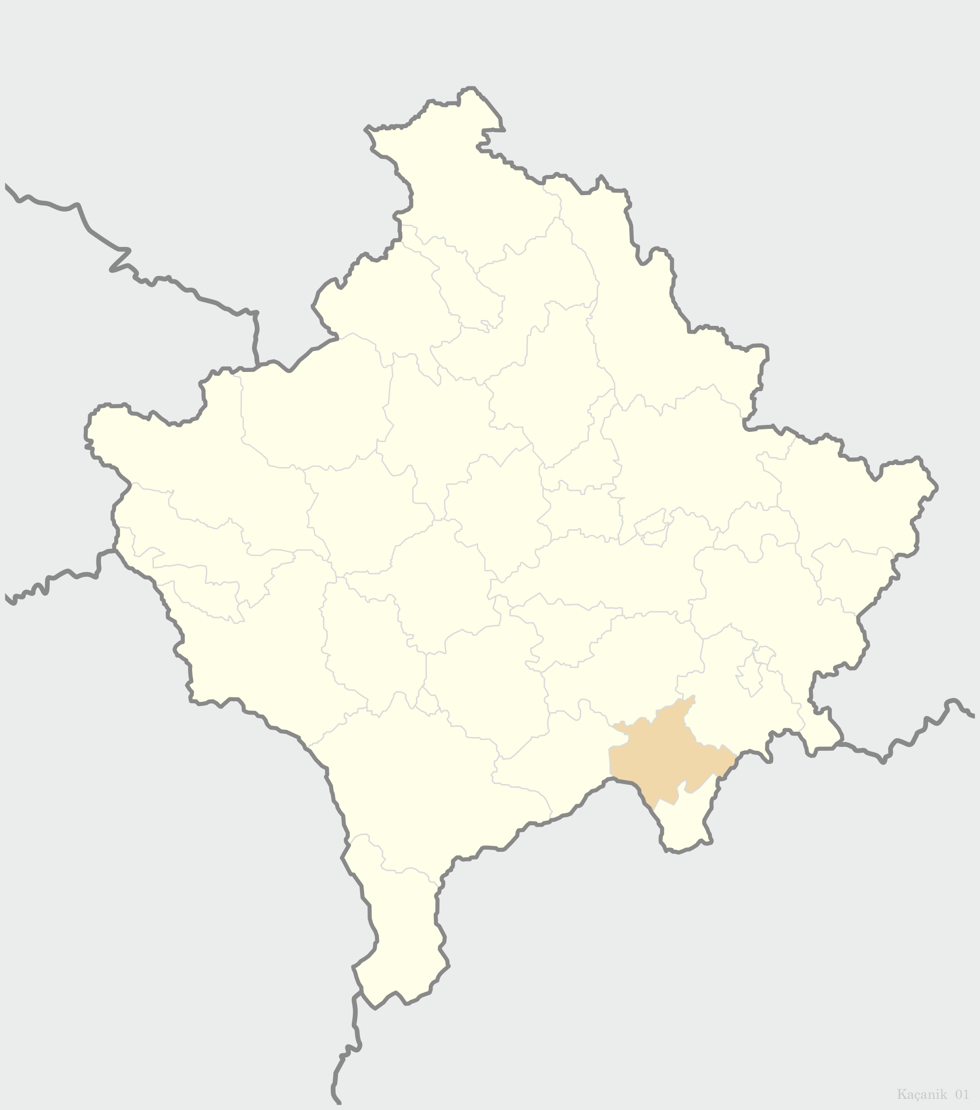 Municipality of Kacanik map